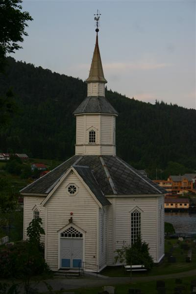 Church of Lavik community